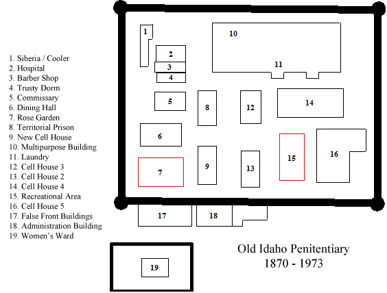 Diagram of the Old Idaho Penitentiary